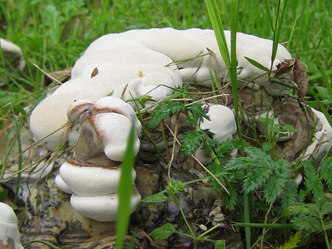 Paltry puffball mushroom in Moscow